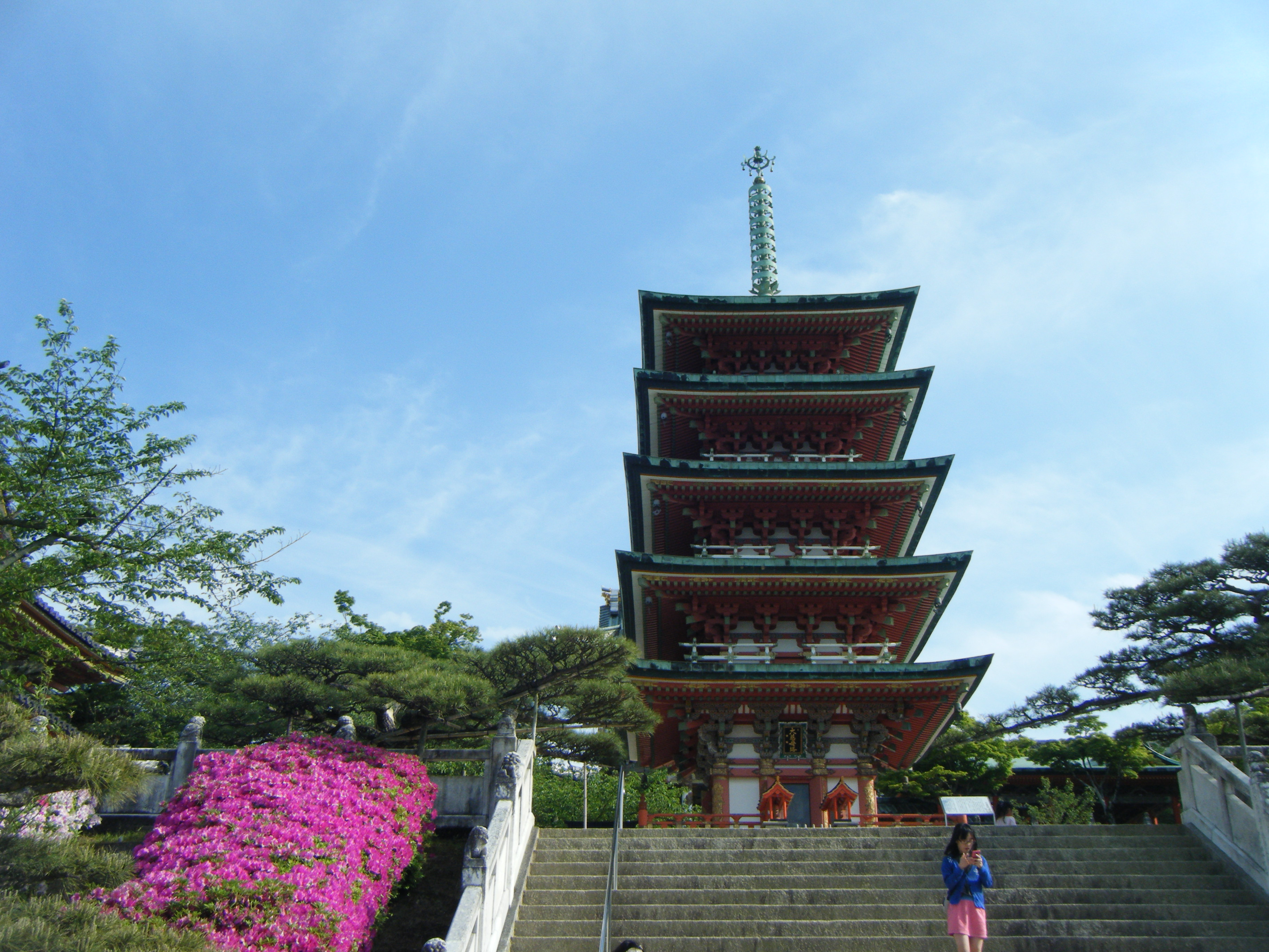 Kōsanji, Onomichi City, Hiroshima Prefecture, Japan.